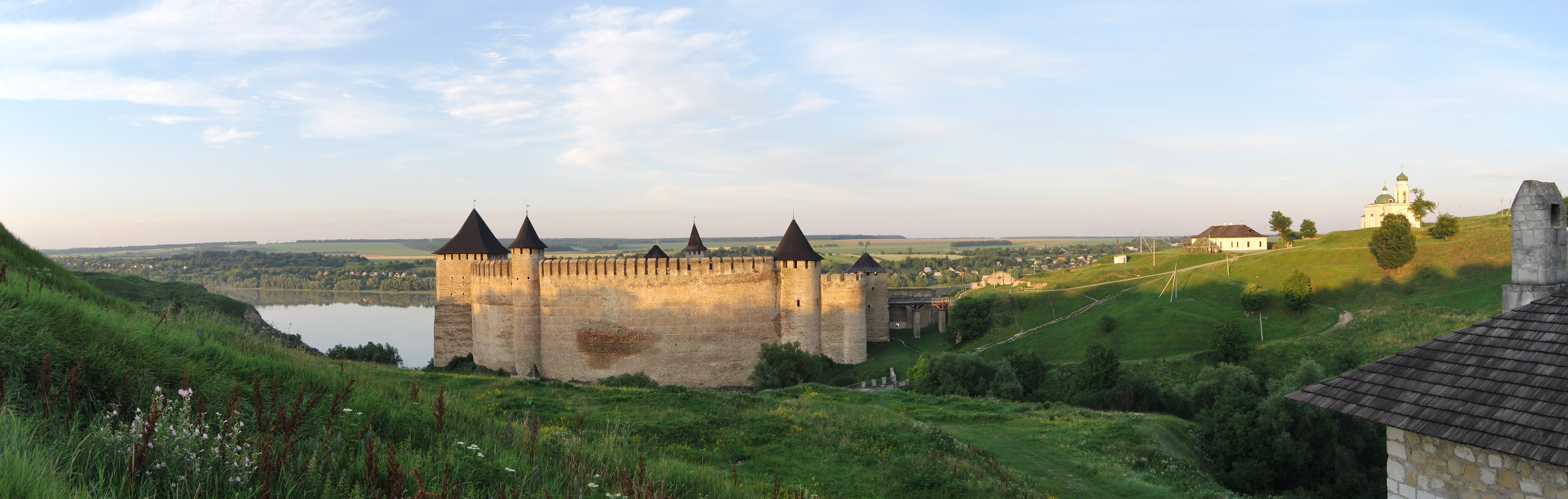 Khotyn Fortress - Panorama